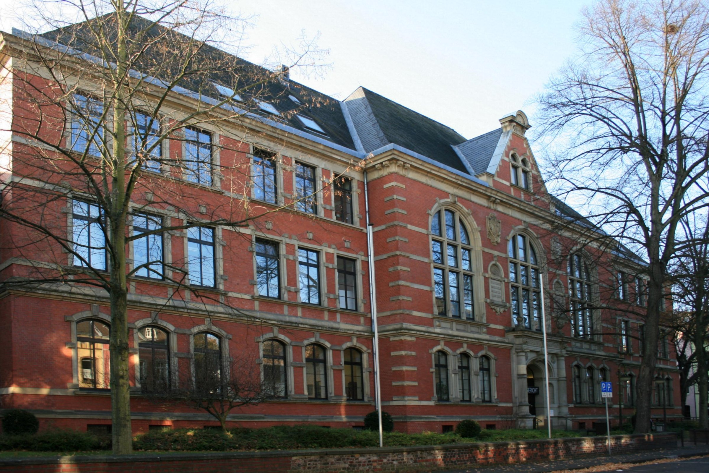 This is a photograph of an architectural monument.